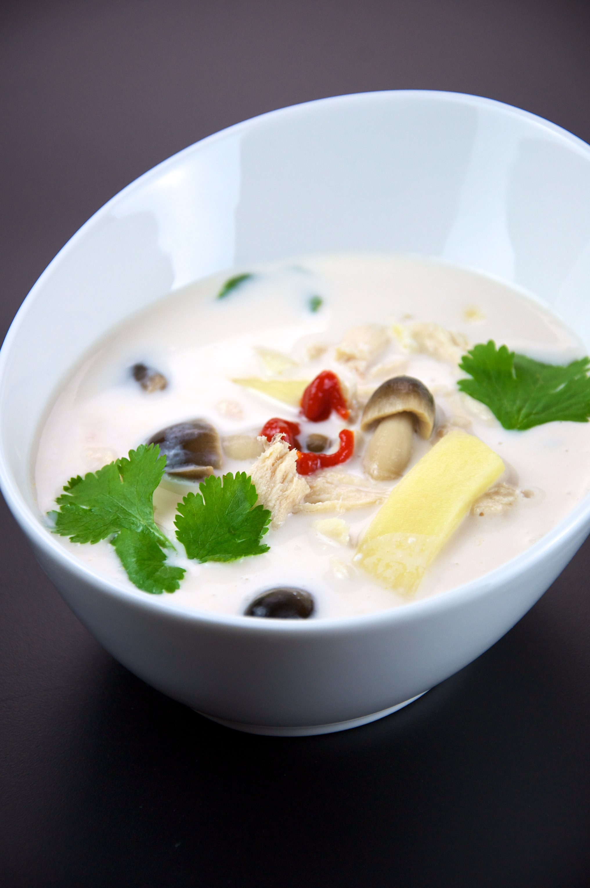 Tom kha gai, a Thai coconut chicken soup, made with lemongrass, galanga, Thai chiles, Kaffir lime leaves, cilantro, and canned straw mushrooms. Photographed in the Oakmore neighborhood of Oakland, California, USA.